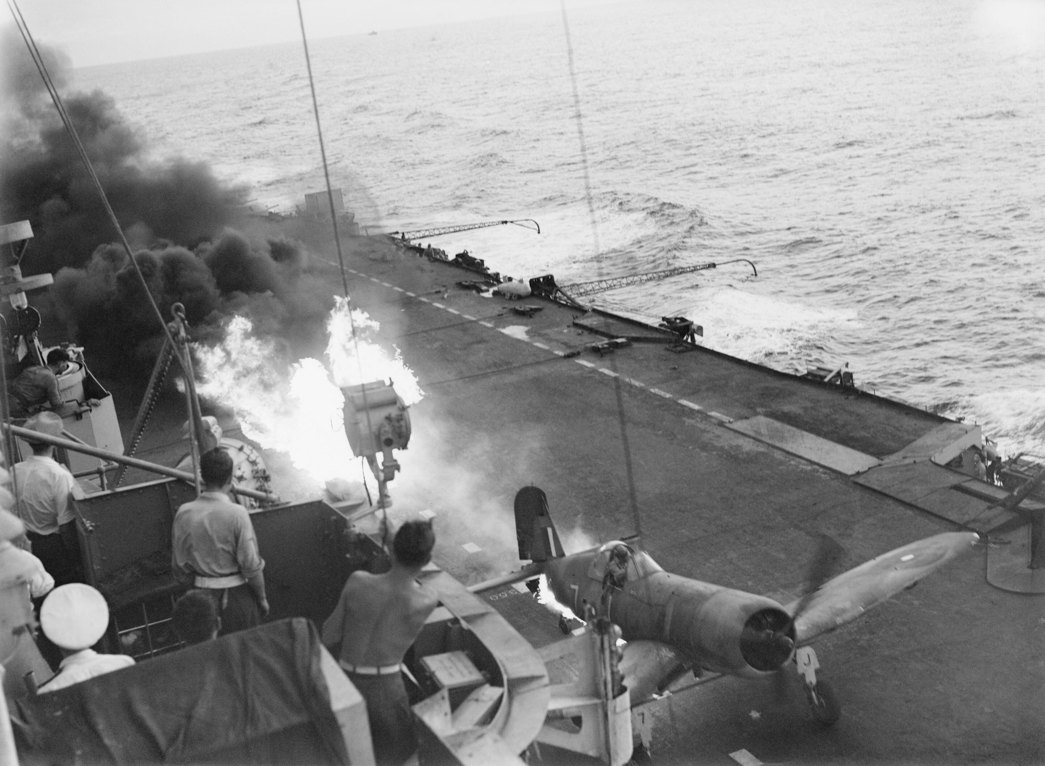 The Royal Navy during the Second World War While making an emergency landing on board HMS VICTORIOUS, a Chance-Vought Corsair's auxiliary petrol tank became detached and burst into flames, setting fire to the undercarriage during the carrier-borne air attack against the Japanese repair and maintenance centre at Sigli, Sumatra. In the foreground men can be seen looking down on the aircraft from the bridge of the flight deck.